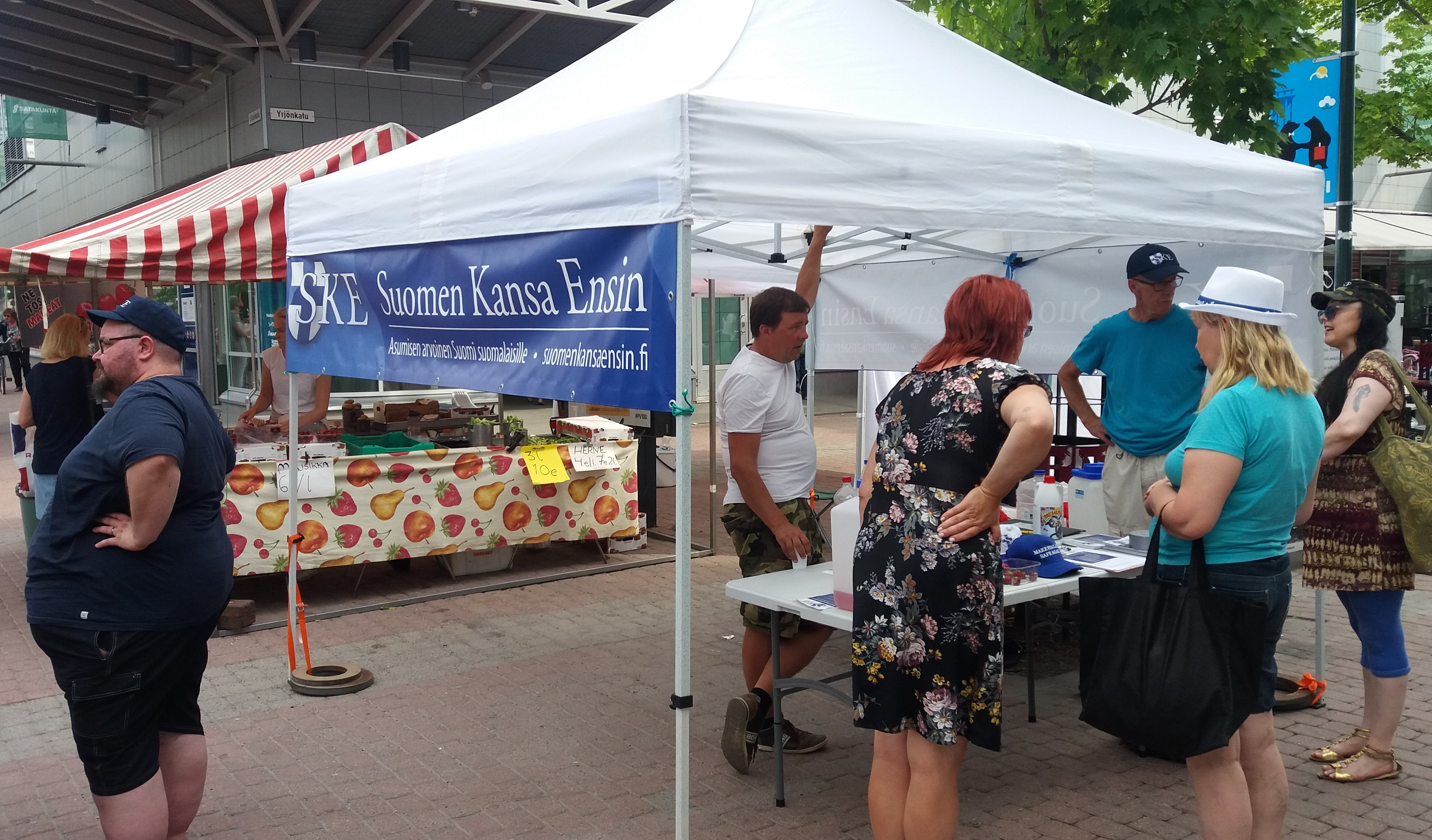 Stand of the Finnish People First party at the 2018 SuomiAreena political forum, Pori, Finland.